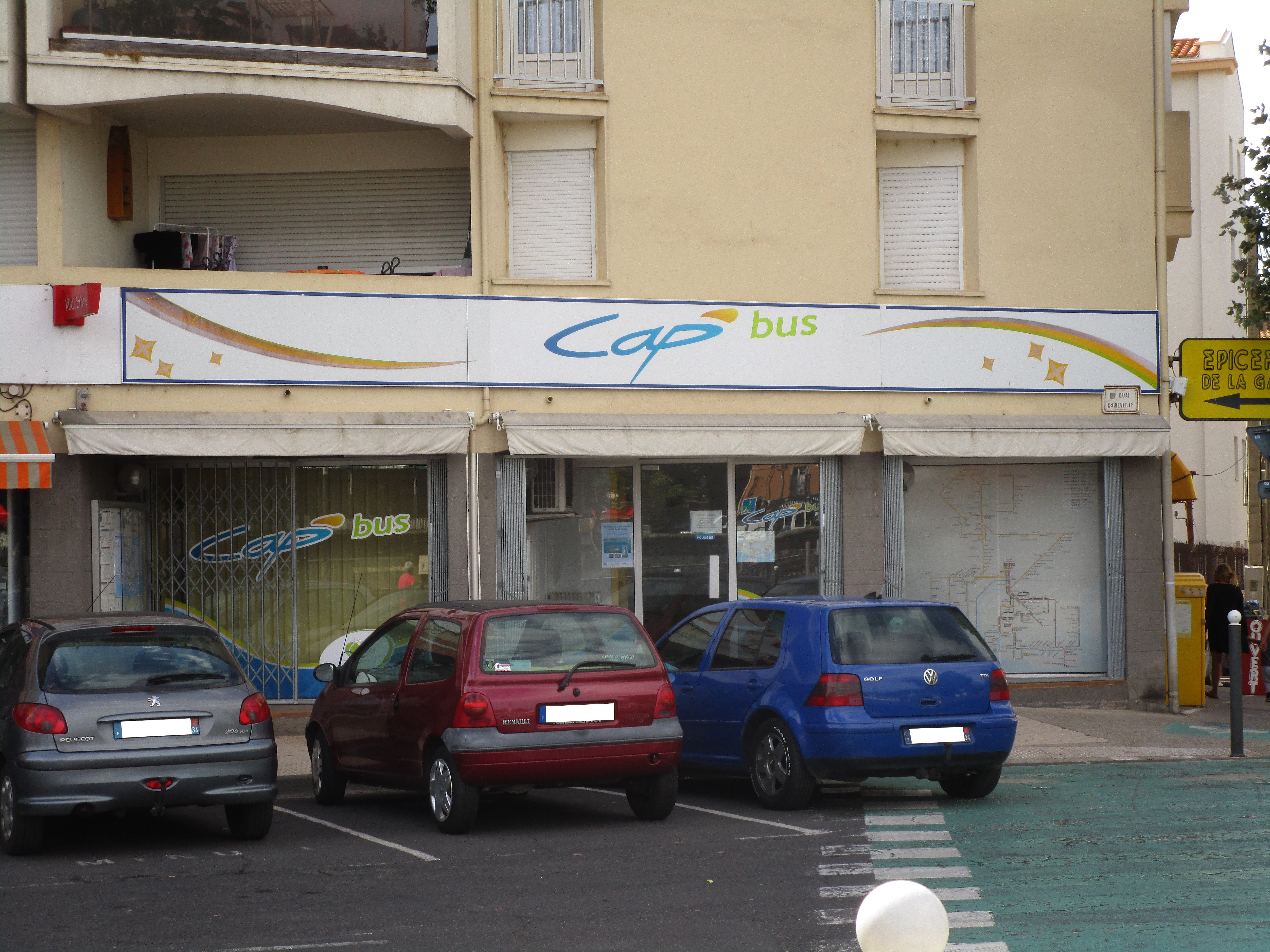 The sales agency of Cap’Bus — in Agde, France — on June 28, 2017.